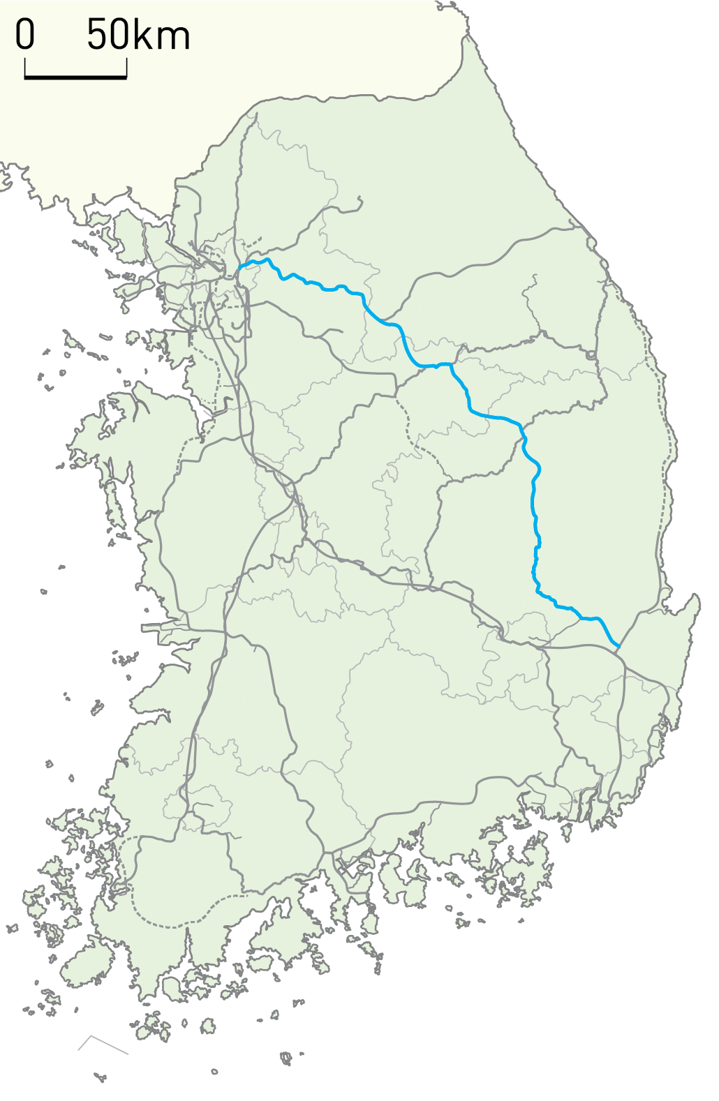 Korail Jungang Line route map